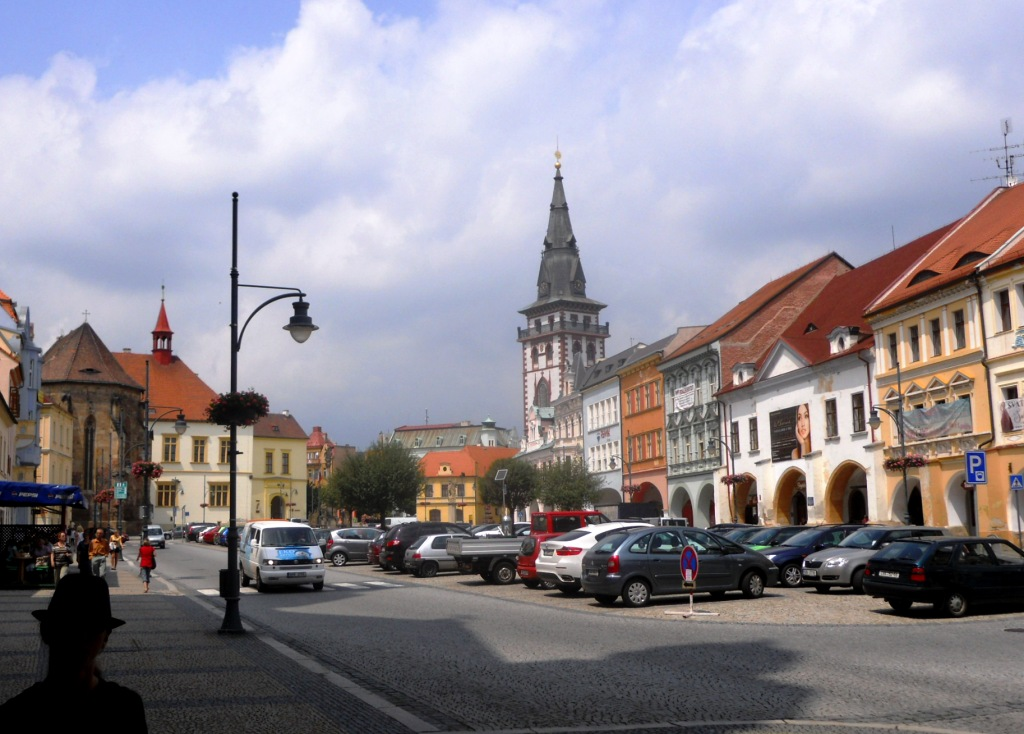 Chomutov square from SW